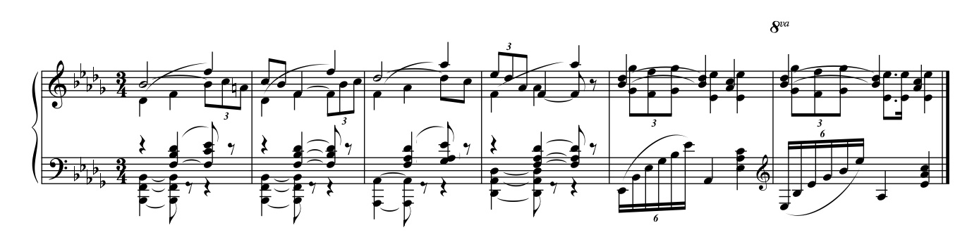 Transcription of the sketch of Torna ai felici dì, from Le Villi